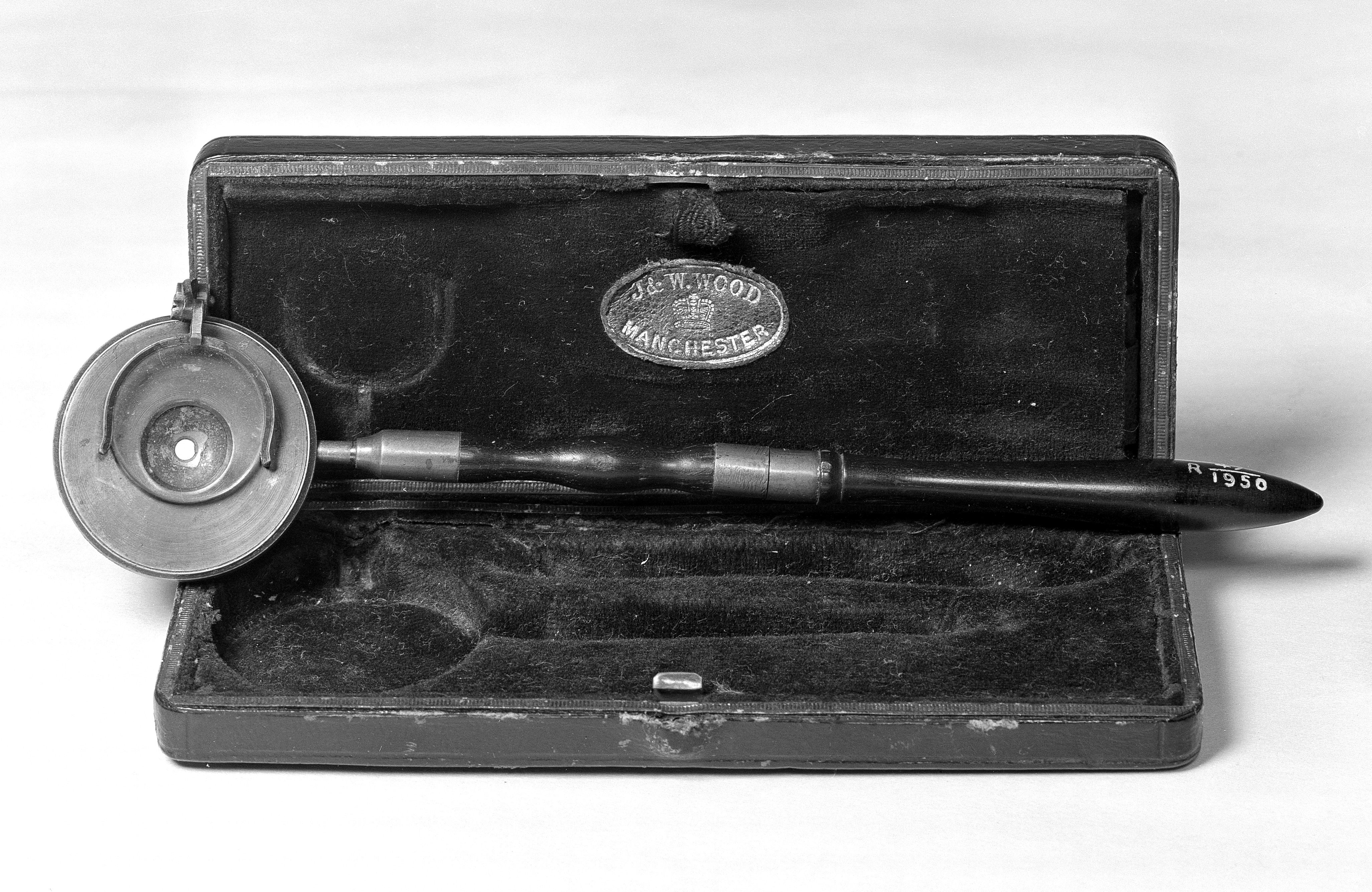 Ophthalmoscope of the type designed by Richard Liebreich (1830 - 1917) circa 1860. The principal features of the Instrument are a concave speculum of metal and a hinged lens carrier. Wellcome Images Keywords: Richard Liebreich; Ophthalmoscopes; Ophthalmoscope